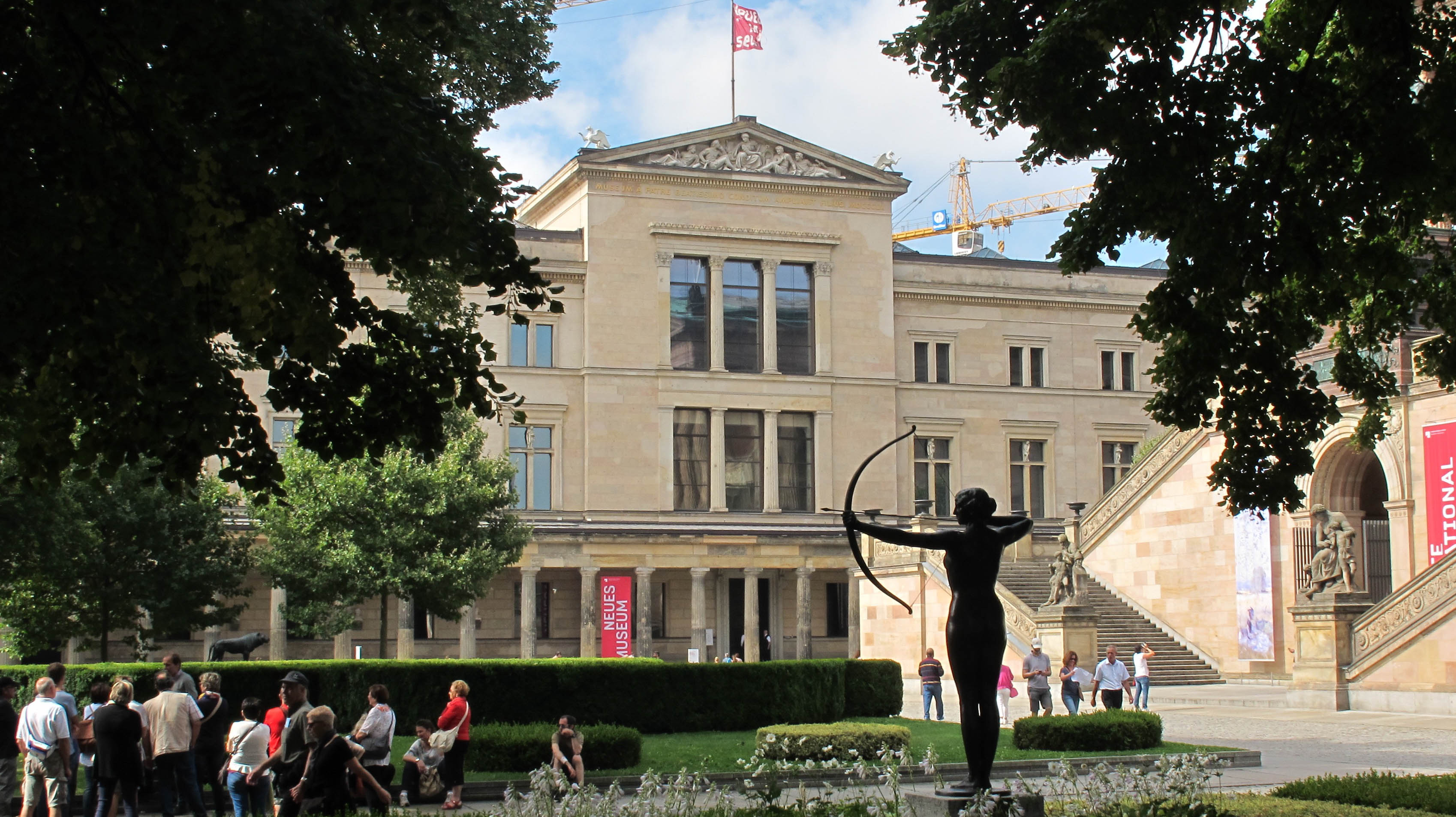 Exterior view of the Neues Museum (Berlin). The entrance from the garden.